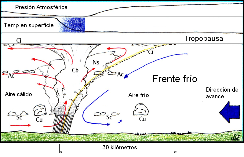 Transversal cut of cold front, associated clouds, surface temperature and atmospheric pressure graphics.